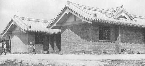 GRI Museum in 1950s